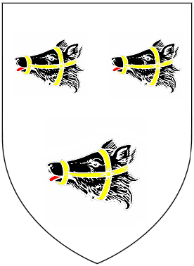 Arms of Bere (or Beare) family of Huntsham and Morebath, Devon: Argent, three bear's heads erased sable muzzled or (Pole, Sir William (d.1635), Collections Towards a Description of the County of Devon, Sir John-William de la Pole (ed.), London, 1791, p.470; Vivian, Lt.Col. J.L., (Ed.) The Visitation of the County of Devon: Comprising the Heralds' Visitations of 1531, 1564 & 1620, Exeter, 1895, p.59)